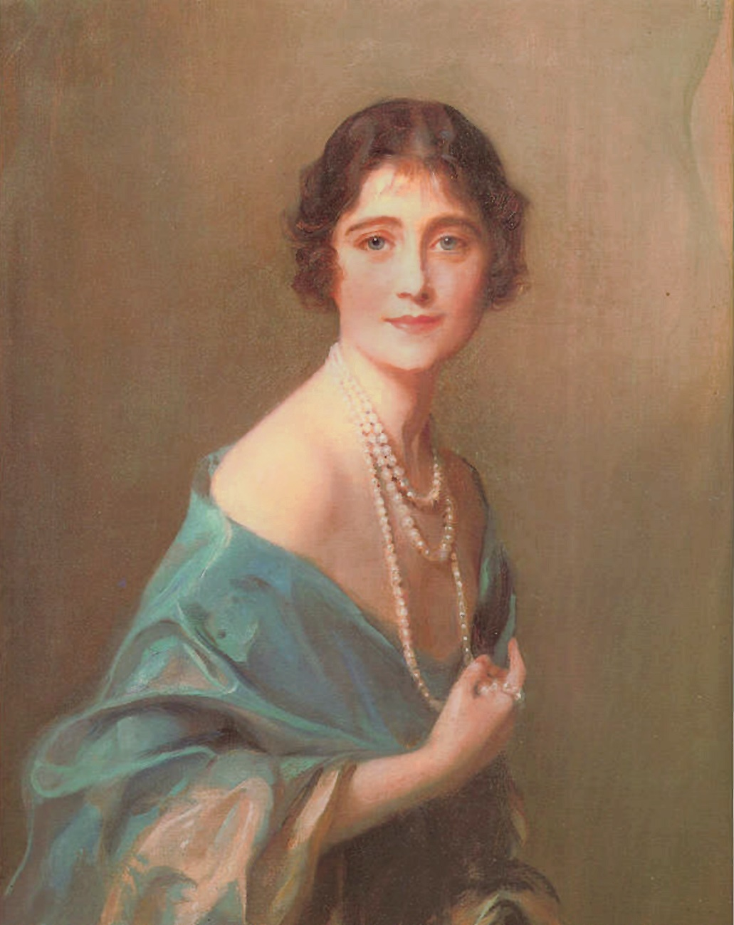 Philip Alexius de László: The Duchess of York (nee Elizabeth Bowes-Lyon, later Queen Elizabeth the Queen Mother), 1925